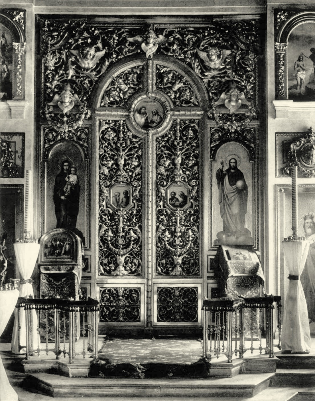 Church of Trinity na Gryazekh, Moscow